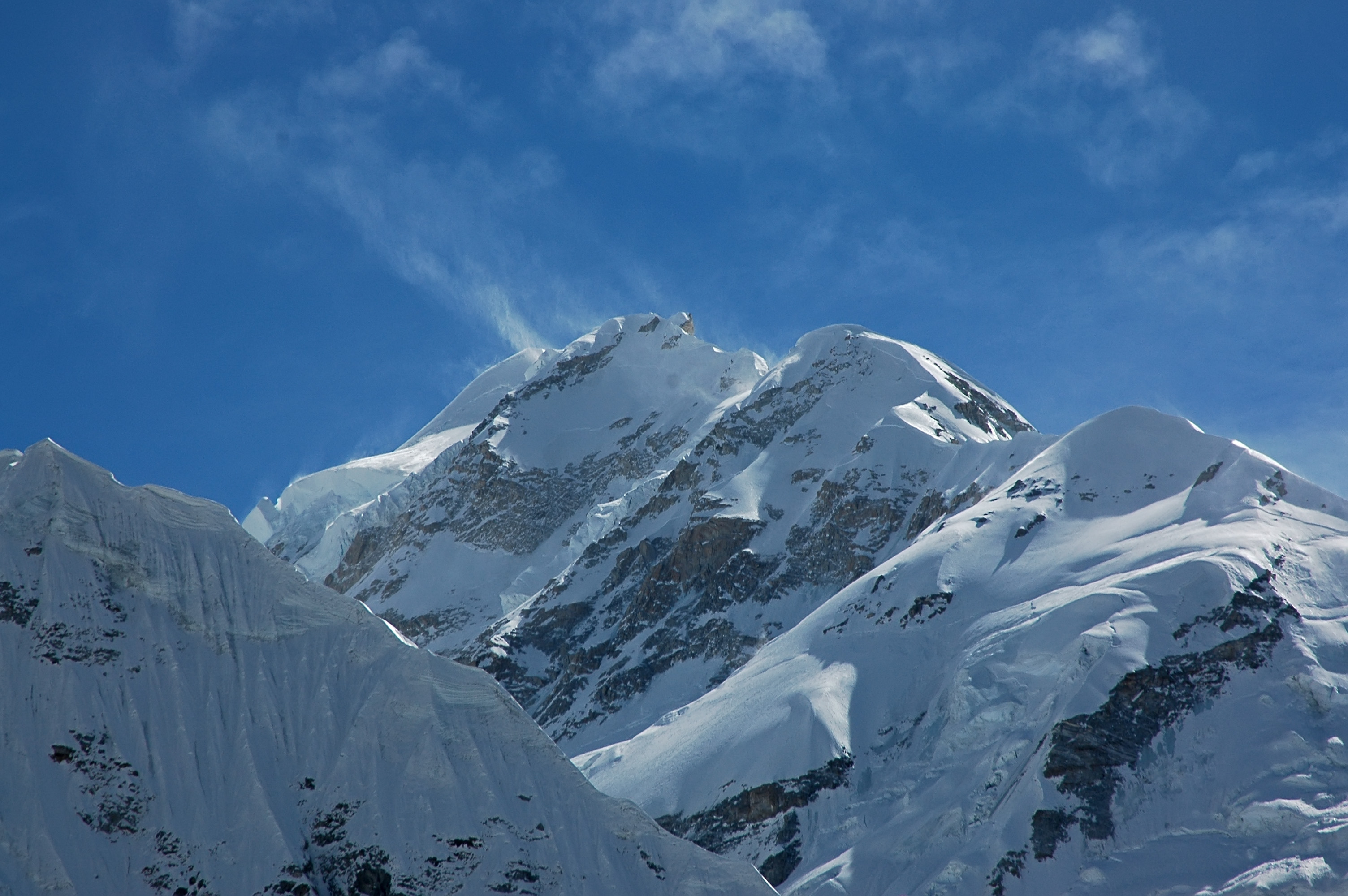 The Twins/Gimmigelia Chuli (7350 m und 6918 m)